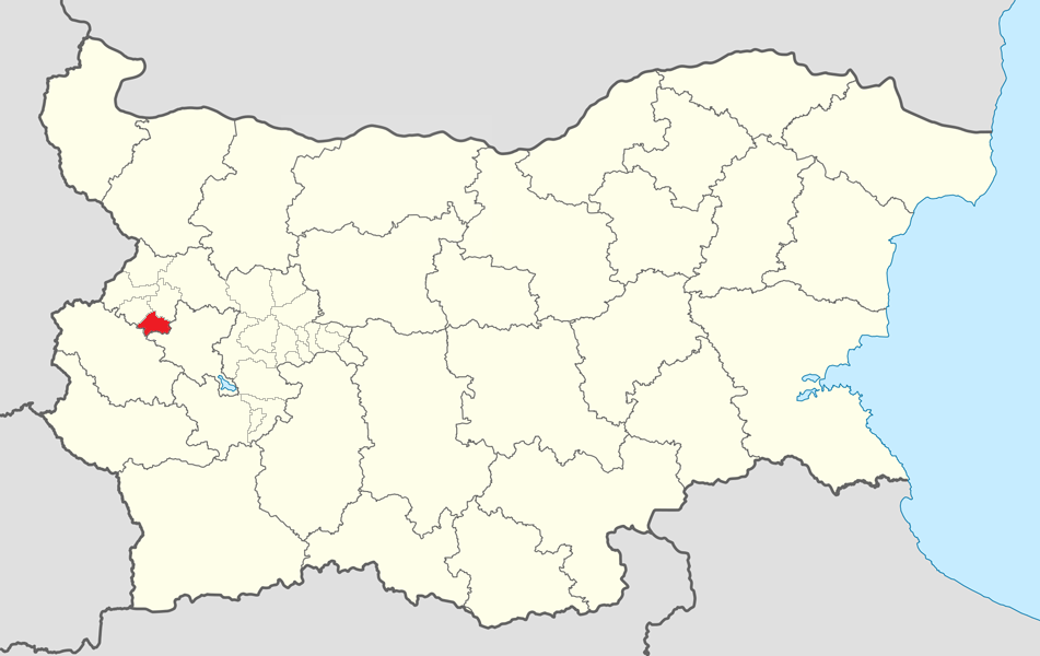 Location map of Bozhurishte Municipality within Bulgaria and Sofia province